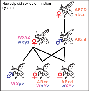 Haplodiploid-sex-determination-system 半倍数性